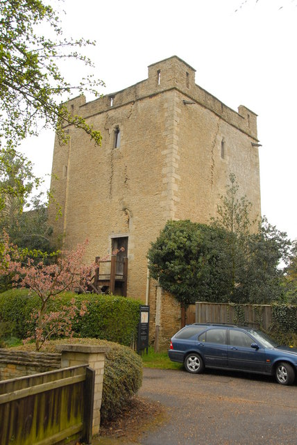 Longthorpe Tower, Peterborough